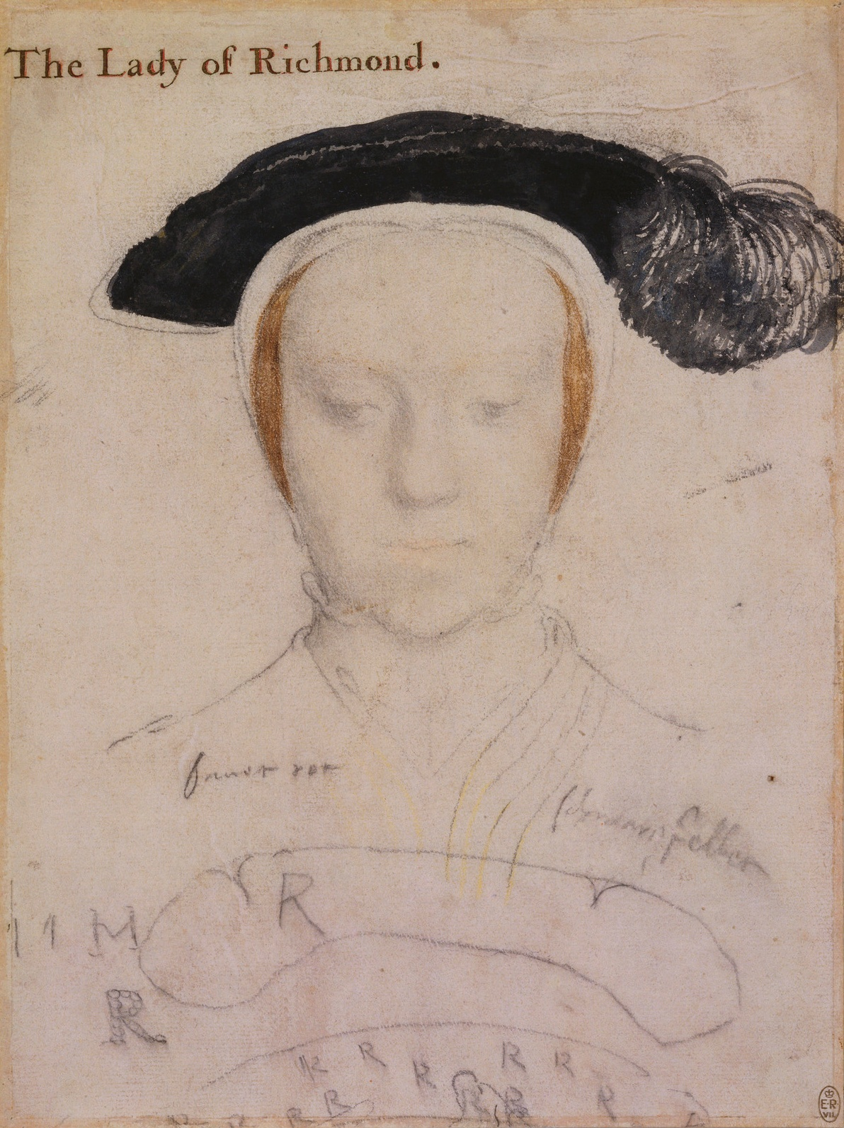 Portrait study of Mary, Duchess of Richmond and Somerset. Black and coloured chalks, ink with brush on pink-primed paper, 26.7 × 20.1 cm, Royal Collection, Windsor Castle. Mary FitzRoy, Duchess of Richmond and Somerset (1519–1557), was a daughter of Thomas Howard, 3rd Duke of Norfolk, and a sister of Henry Howard, Earl of Surrey, both of whose portraits Holbein painted. In 1533, she married Henry VIII's illegitimate son Henry FitzRoy, 1st Duke of Richmond and Somerset, who died in 1536. This drawing is a raw example of Holbein's preliminary notation style for an oil portrait; it includes alternative designs of the hat and lettering, as well as indications that the dress is to be of red and black velvet edged with gold.